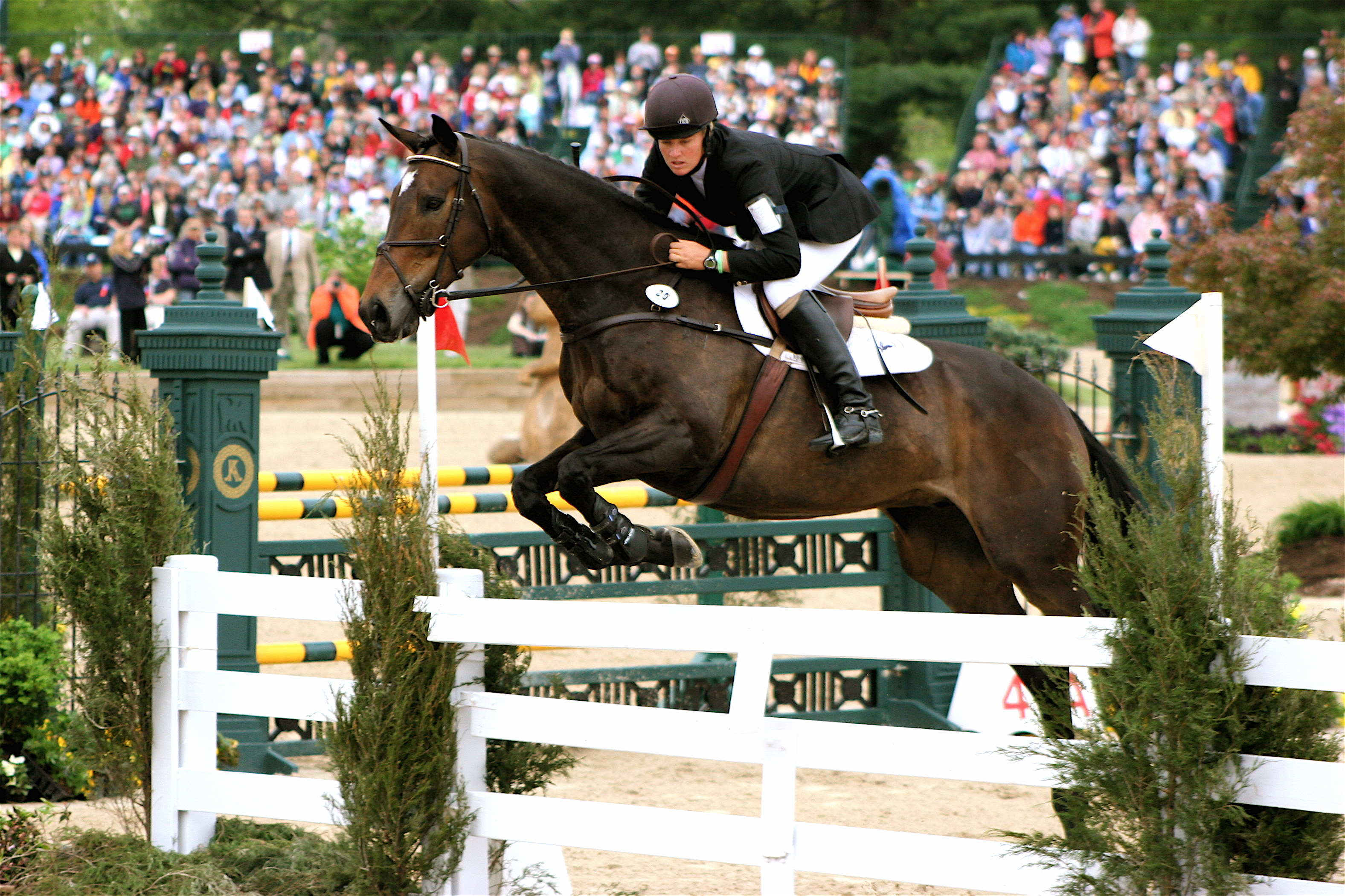 Rider Donna Smith and horse "Call Me Clifton" negotiating a fence at the Show Jumping phase of the 2006 Rolex Kentucky Three Day Event.